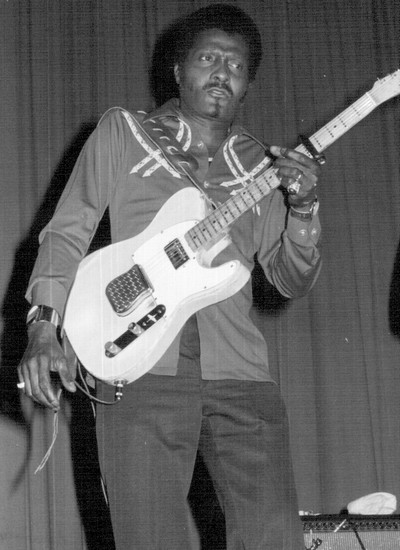 American blues guitarist and singer Albert Collins in France